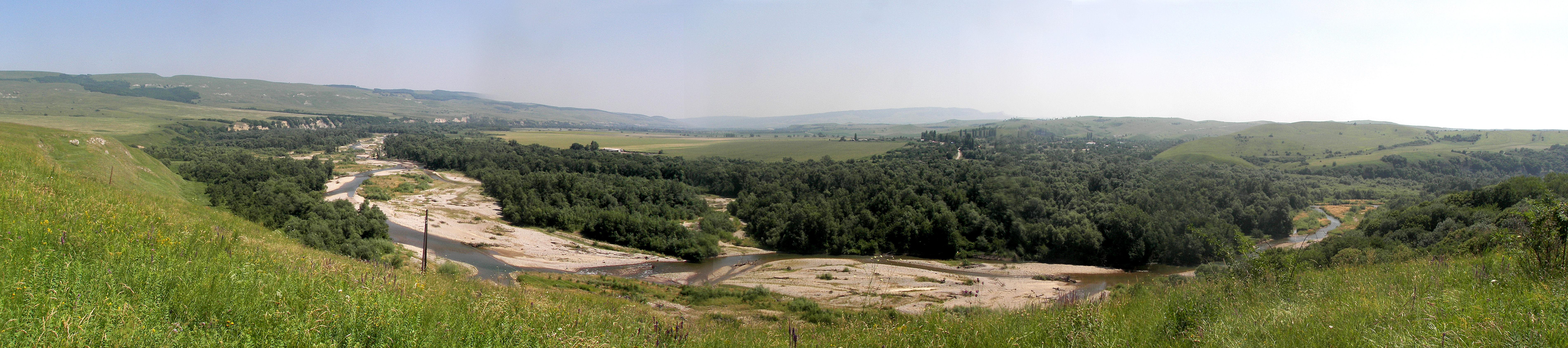 Panorama of Urup River